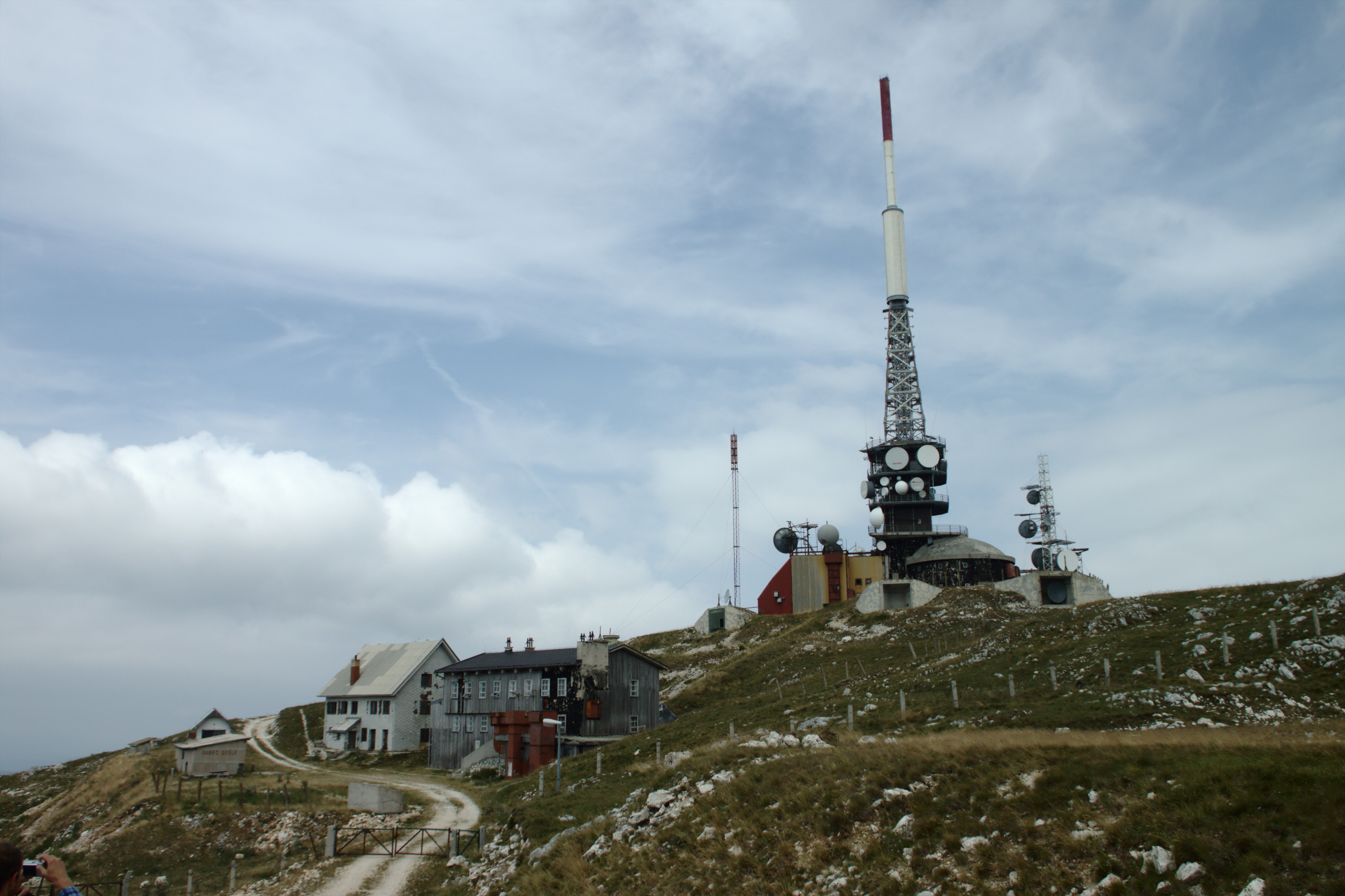 A TV transmitter at the highest peak of the Vlašić mountains, Bosnia and Herzegovina